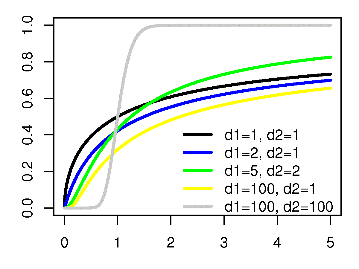 CDF of F distribution